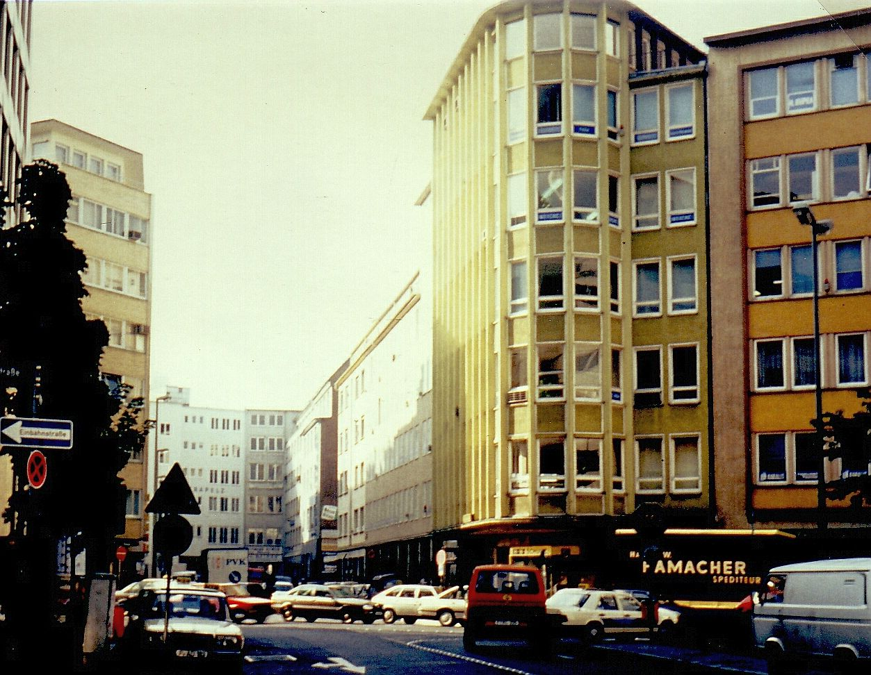 Frankfurt/Main, Niddastr./Karlstr. (fur center)